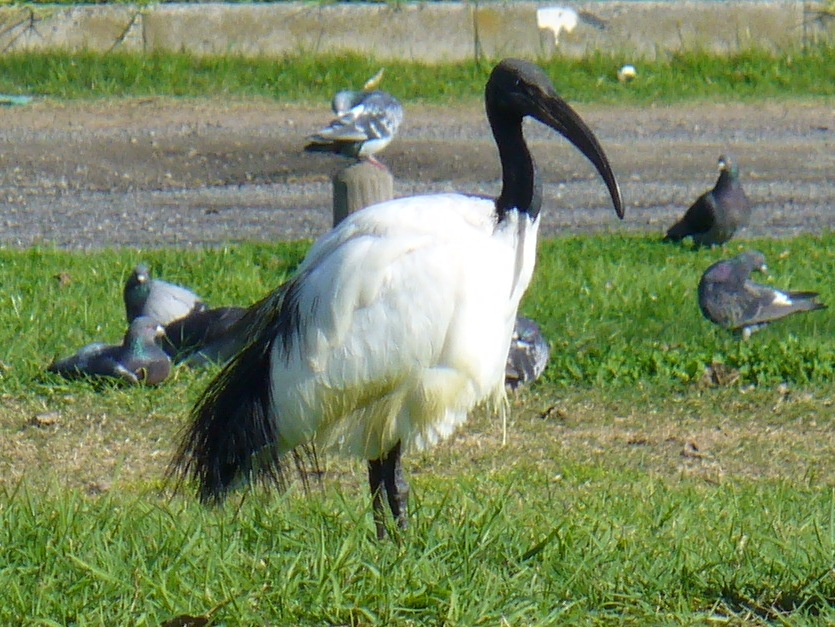 Sacred Ibis Andrew Massyn Liesbeek River Cape Town July 2006